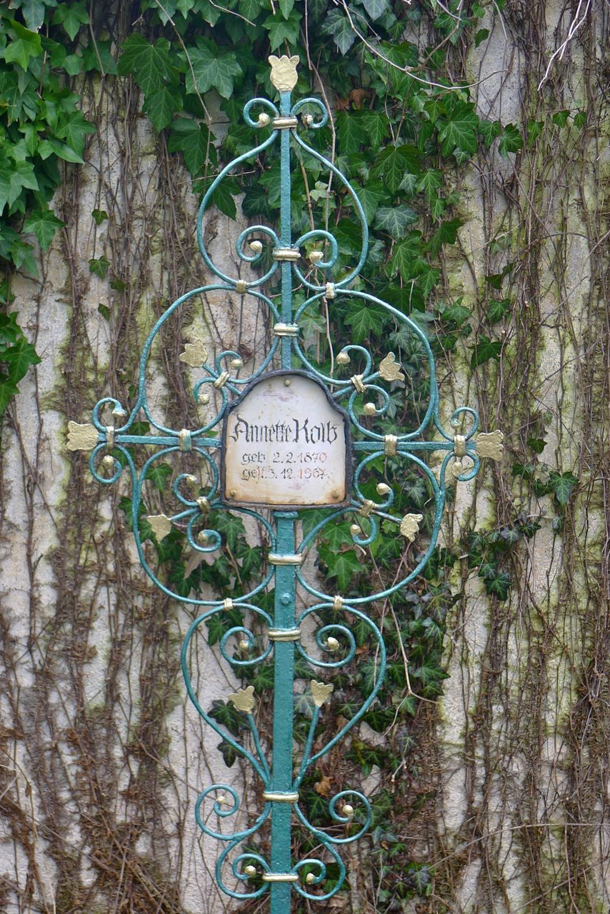 Grave at the Churchyard in Bogenhausen of the german writer Annette Kolb